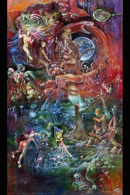 Visionary art, Painting, 2006 artist Jussi Löf